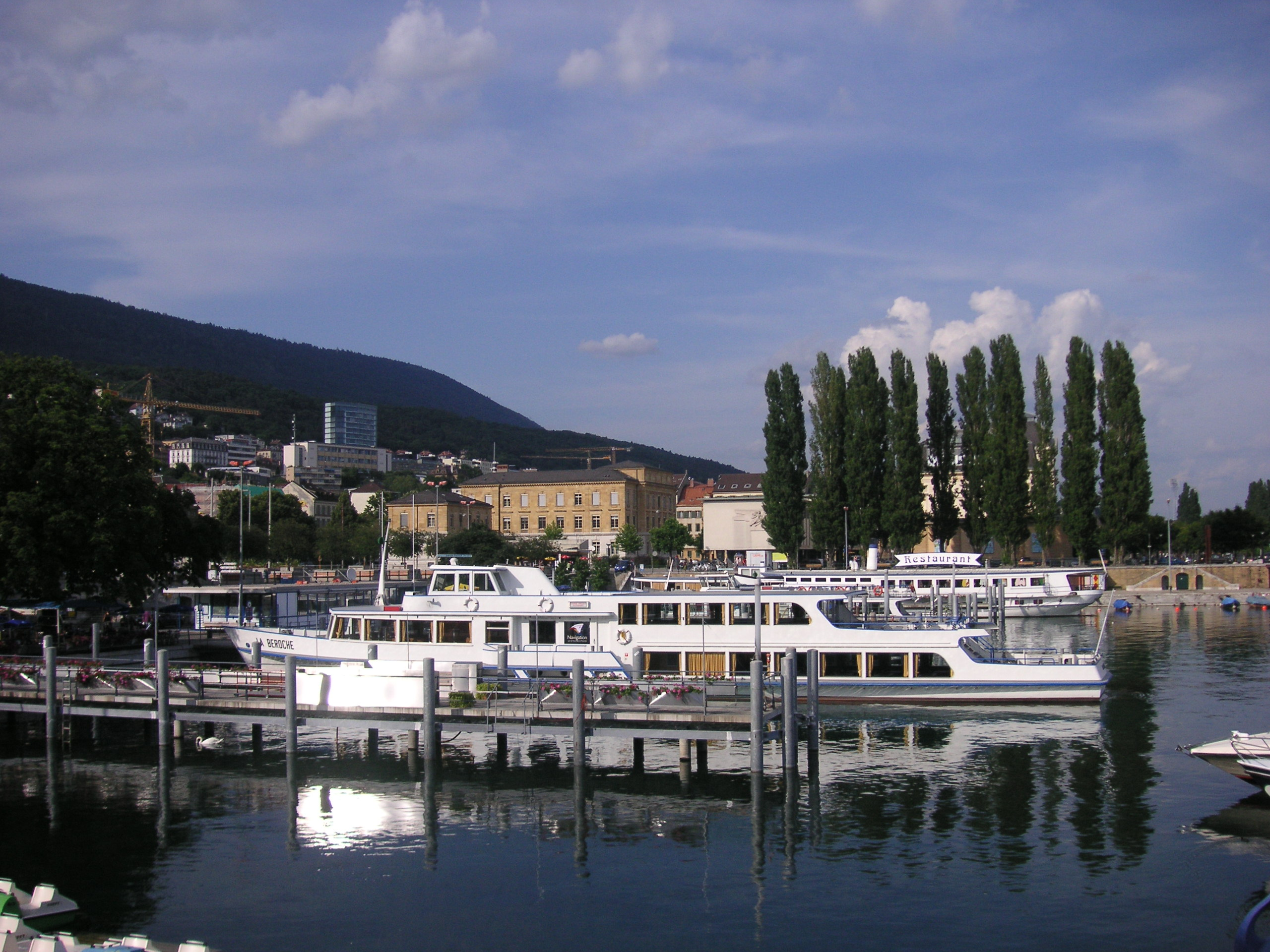 Harbour